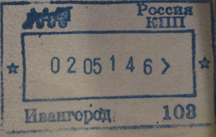 Ivangorod/Narva